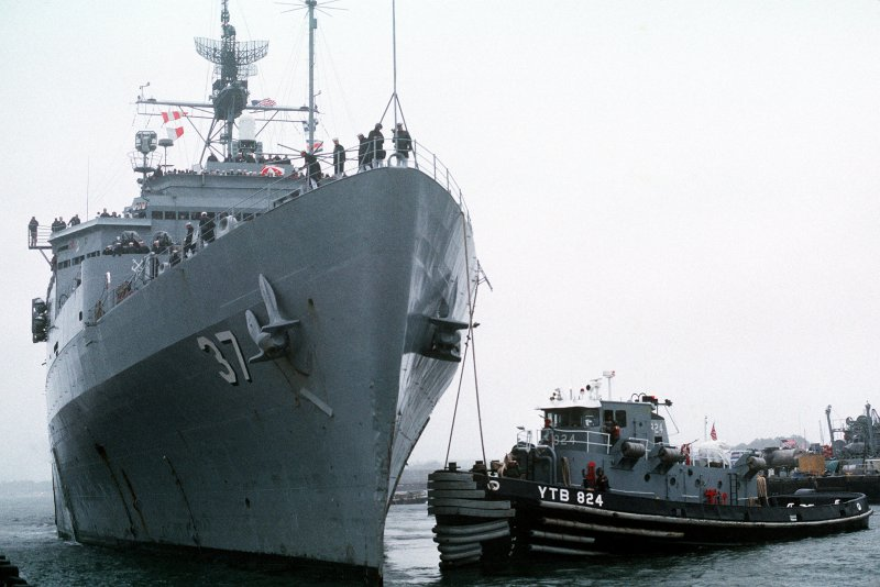 Santaquin (YTB-824) assists the dock landing ship USS Portland (LSD-37) into her berth at Naval Amphibious Base, Little Creek, VA., 20 April 1991. Portland was returning to her homeport following a deployment to the Persian Gulf region for Operation Desert Shield and Operation Desert Storm. DVIC photo # DNST9110400 by PH2 Carl USN.